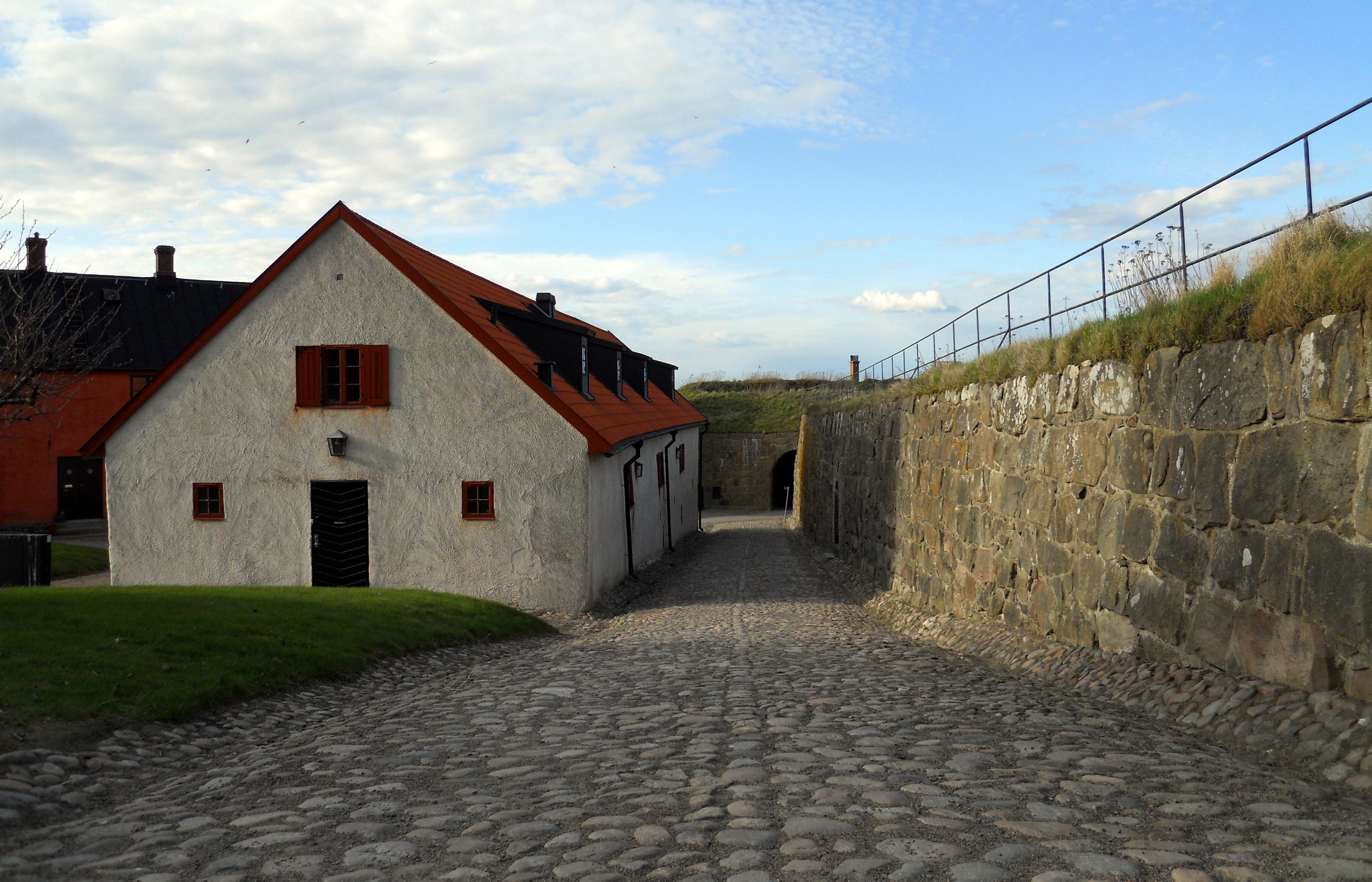 Varberg Fortress, Sweden.